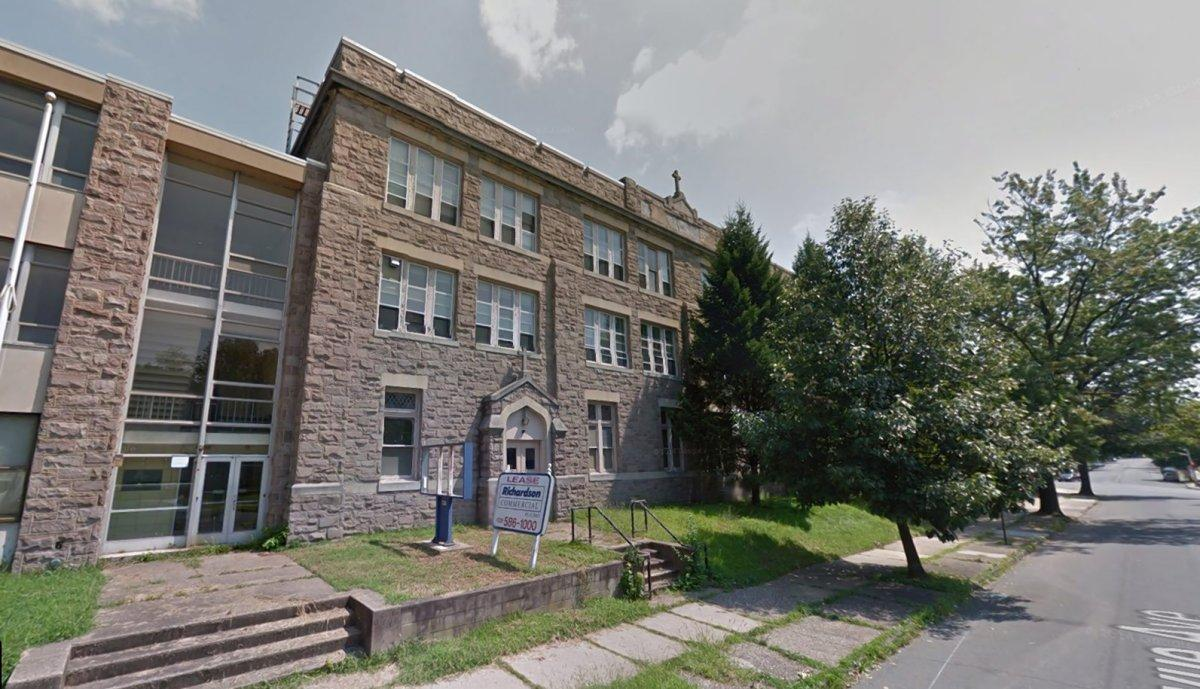 IATCS Bellevue Campus